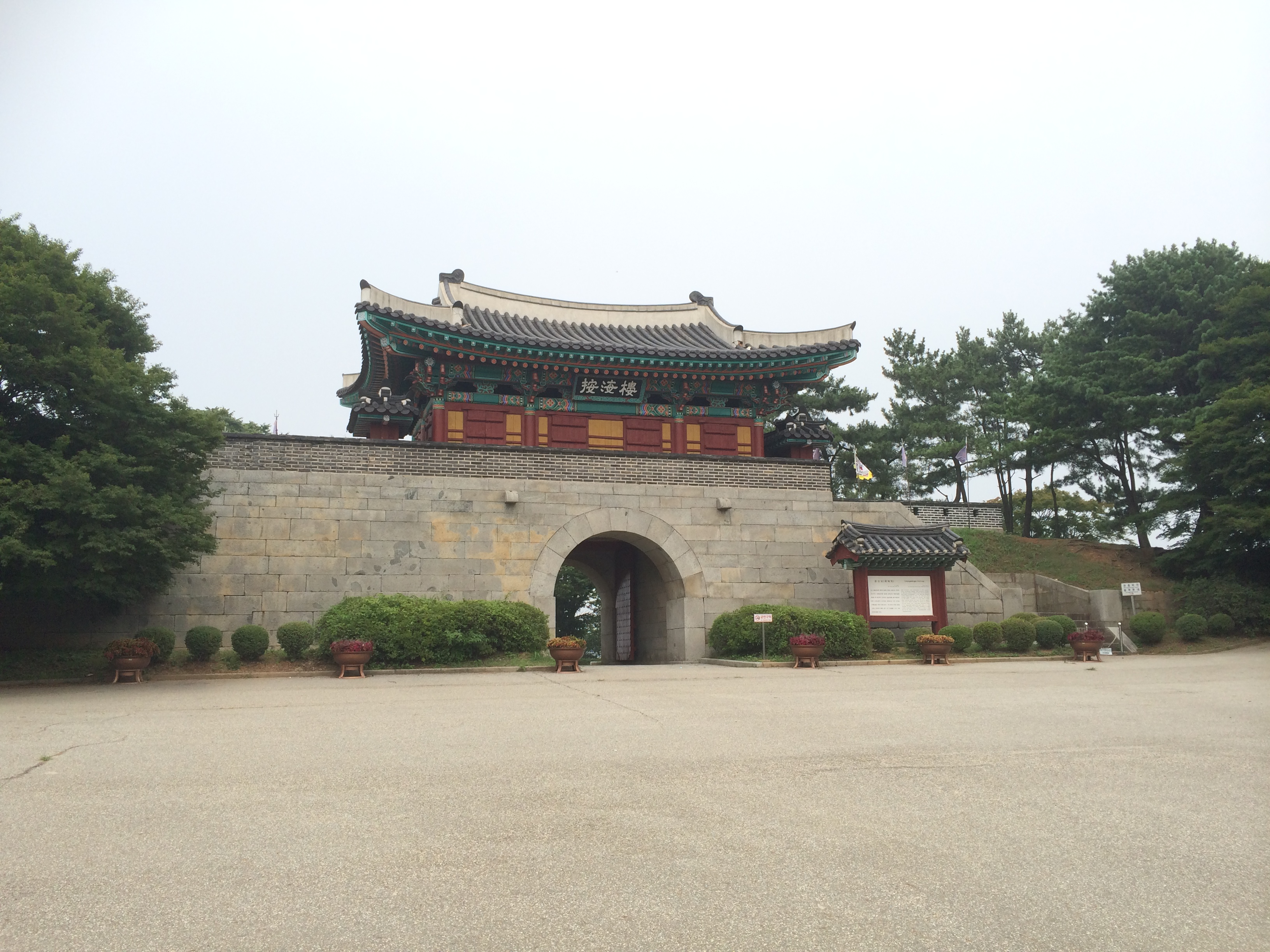 Anhaemun(press sea gate), The main gate of Gwangseonbo in Ganghwado